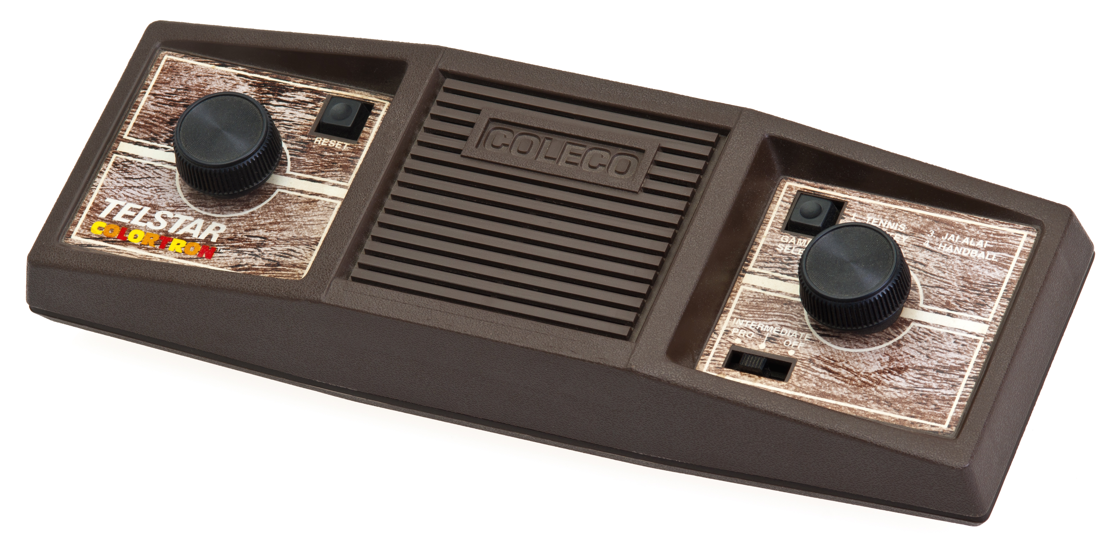 The Coleco Telstar Colortron, a part of the one-game consoles released by Coleco under the Telstar line.